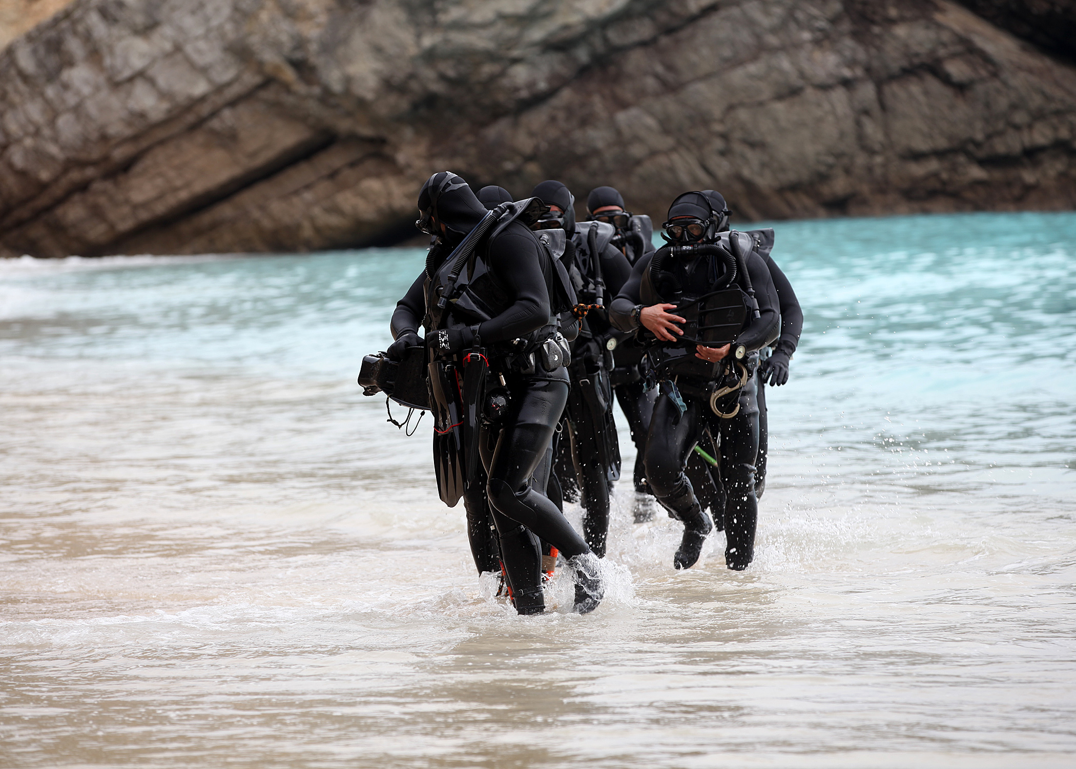 Soldiers in the Portuguese Naval Special Forces DAE take the beach on the coast of Lisbon, Portugal on October 23, 2015 during NATO exercise Trident Juncture 15.